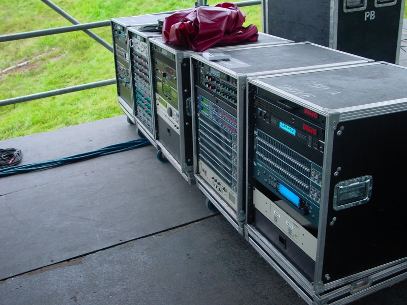 Some racks of outboard gear at a concert FOH position.